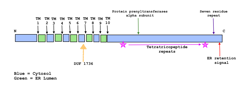 TMTC4